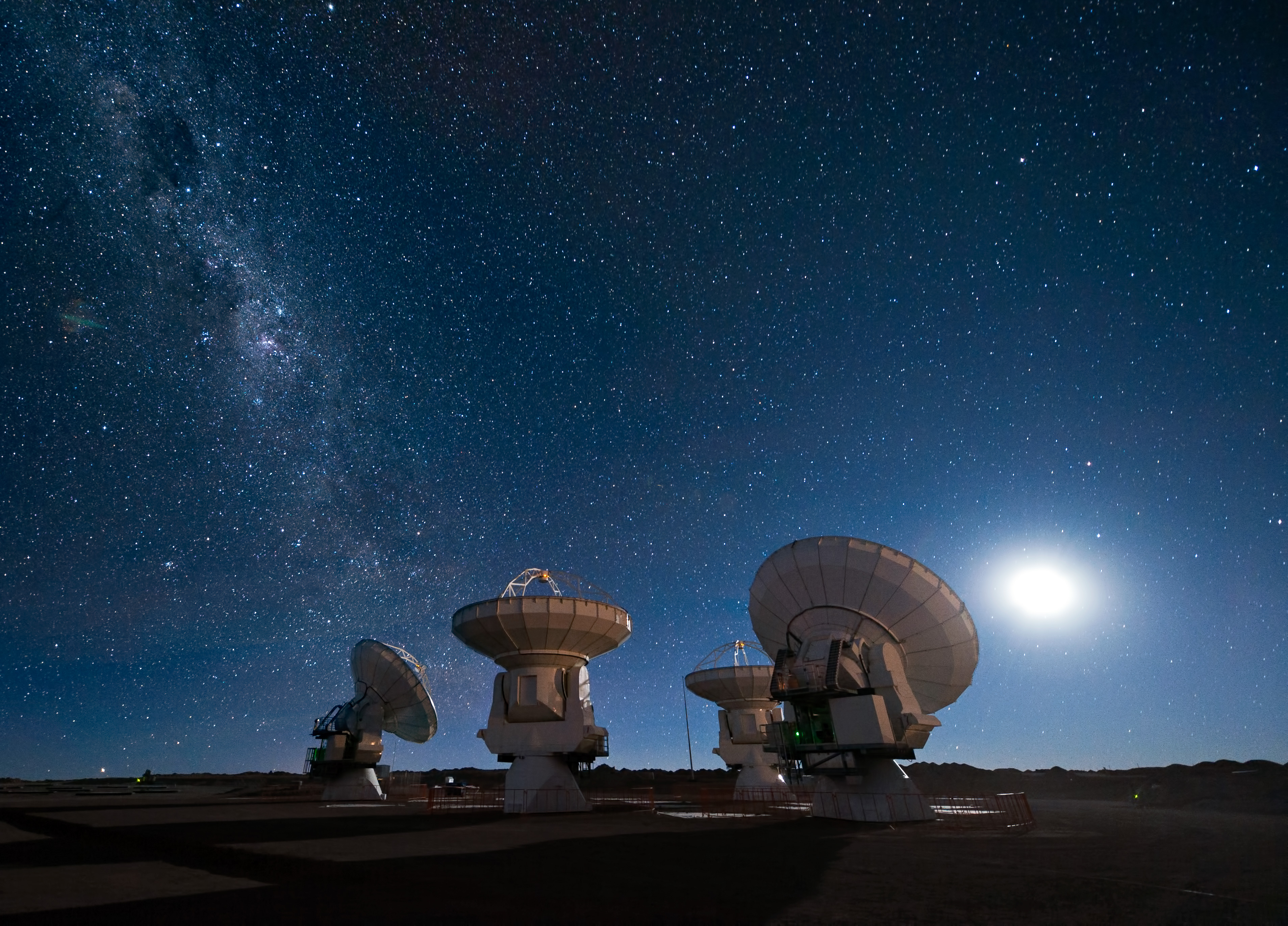 Four antennas of the Atacama Large Millimeter/submillimeter Array (ALMA) gaze up at the star-filled night sky, in anticipation of the work that lies ahead. The Moon lights the scene on the right, while the band of the Milky Way stretches across the upper left. ALMA is being constructed at an altitude of 5000 m on the Chajnantor plateau in the Atacama Desert in Chile. This is one of the driest places on Earth and this dryness, combined with the thin atmosphere at high altitude, offers superb conditions for observing the Universe at millimetre and submillimetre wavelengths. At these long wavelengths, astronomers can probe, for example, molecular clouds, which are dense regions of gas and dust where new stars are born when a cloud collapses under its own gravity. Currently, the Universe remains relatively unexplored at submillimetre wavelengths, so astronomers expect to uncover many new secrets about star formation, as well as the origins of galaxies and planets, when ALMA is operational. The ALMA project is a partnership of Europe, North America and East Asia in cooperation with the Republic of Chile. This panorama was taken by ESO Photo Ambassador José Francisco Salgado.